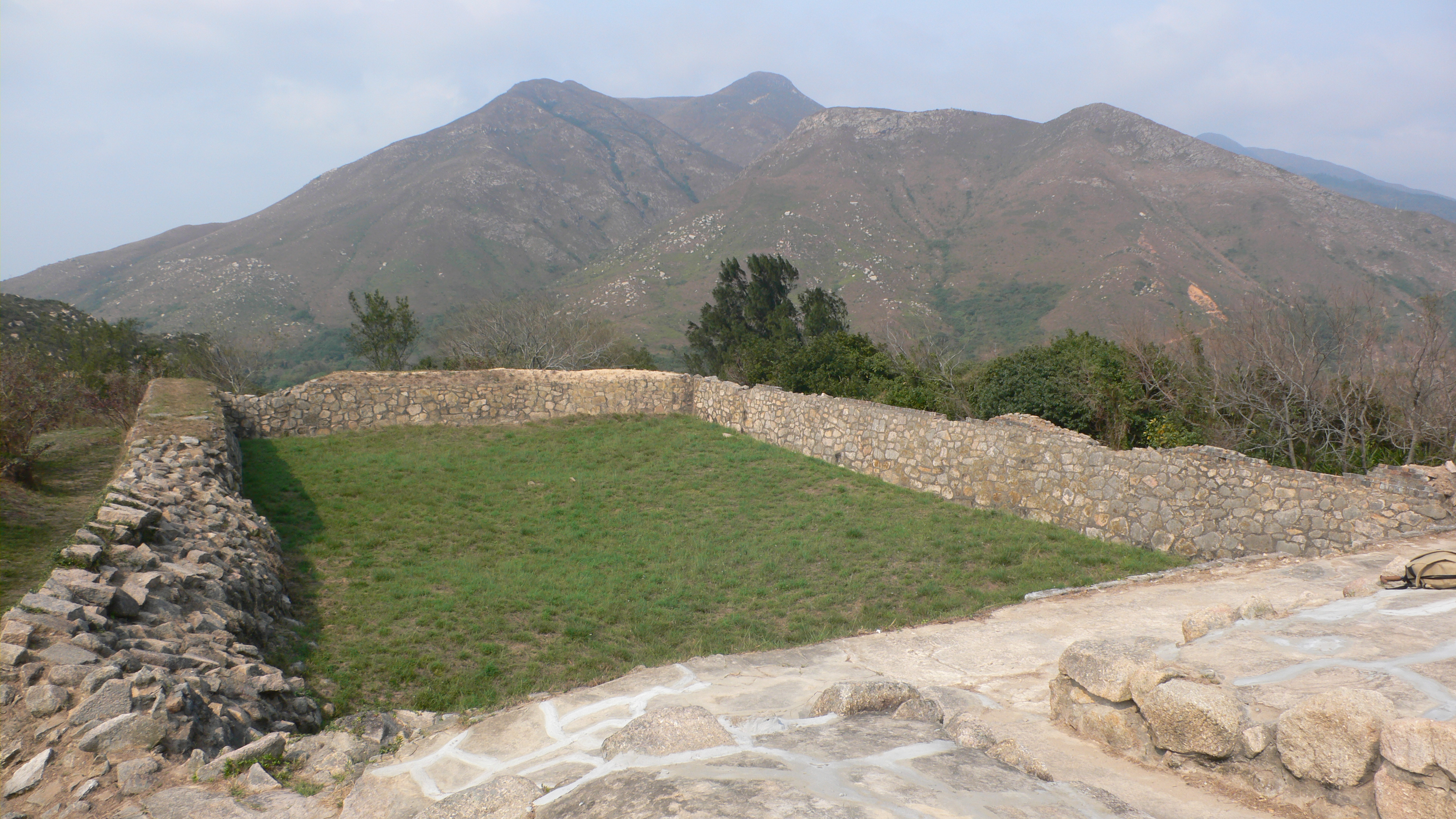 Fan Lau Fort, located on the western part of Lantau Island, is one of the oldest fort in Hong KOng